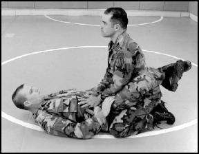 The closed guard demonstrated by two soldiers.